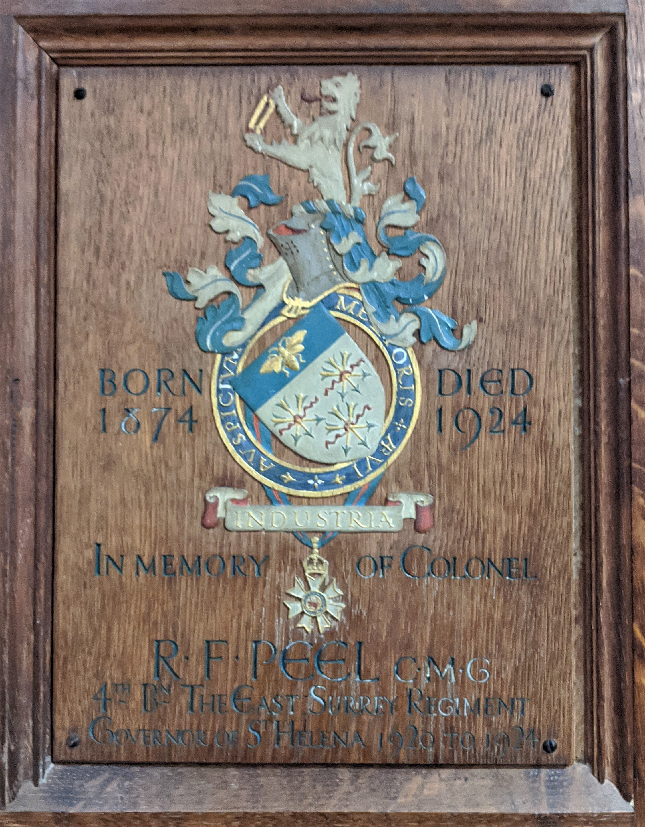 Memorial plaque to Colonel Robert Francis Peel in East Surrey Regiment chapel, All Saints Church, Kingston upon Thames, Surrey